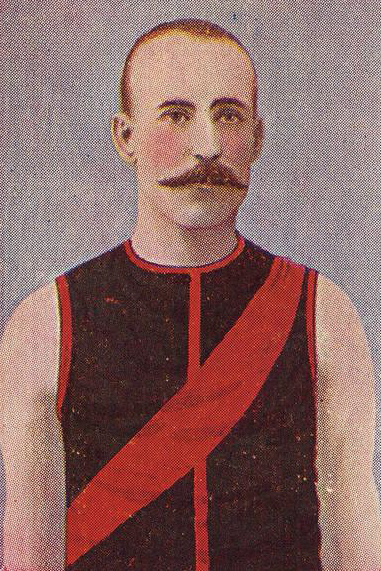 Cigarette card of Jim Anderson from the 1905 Wills Past and Present Champions series.